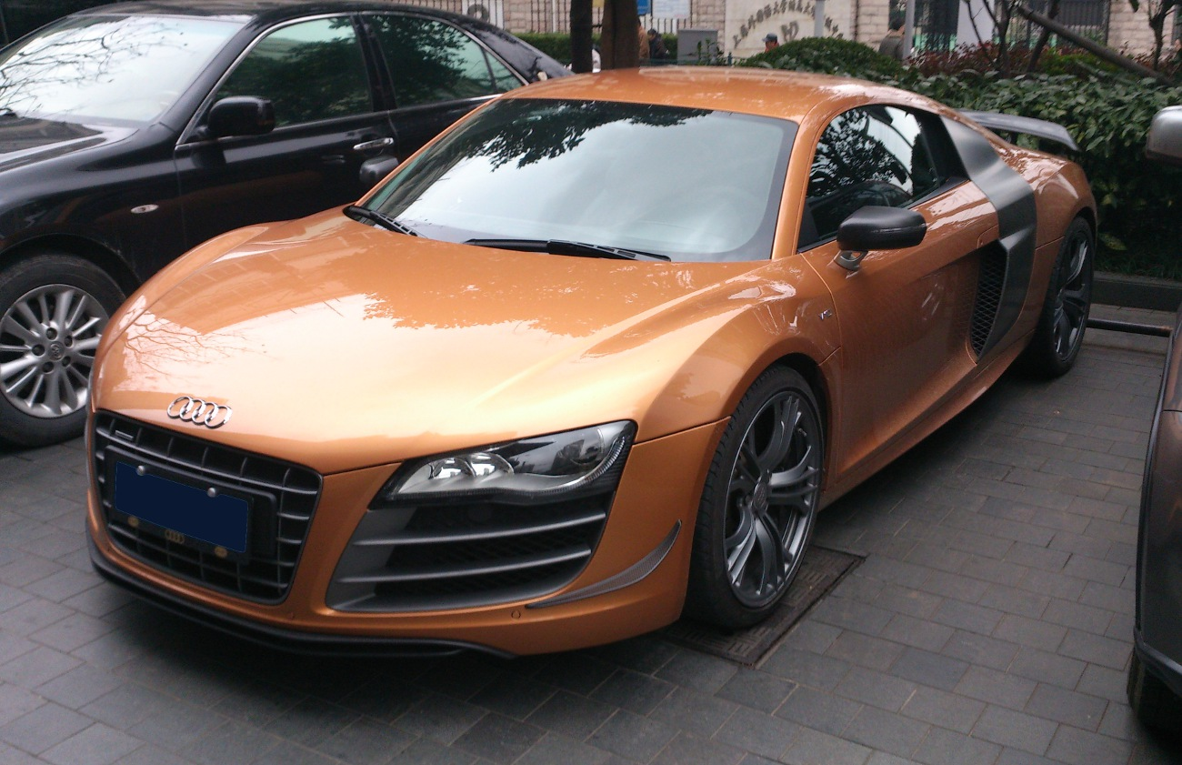 Audi R8 GT photographed in Shanghai, China.